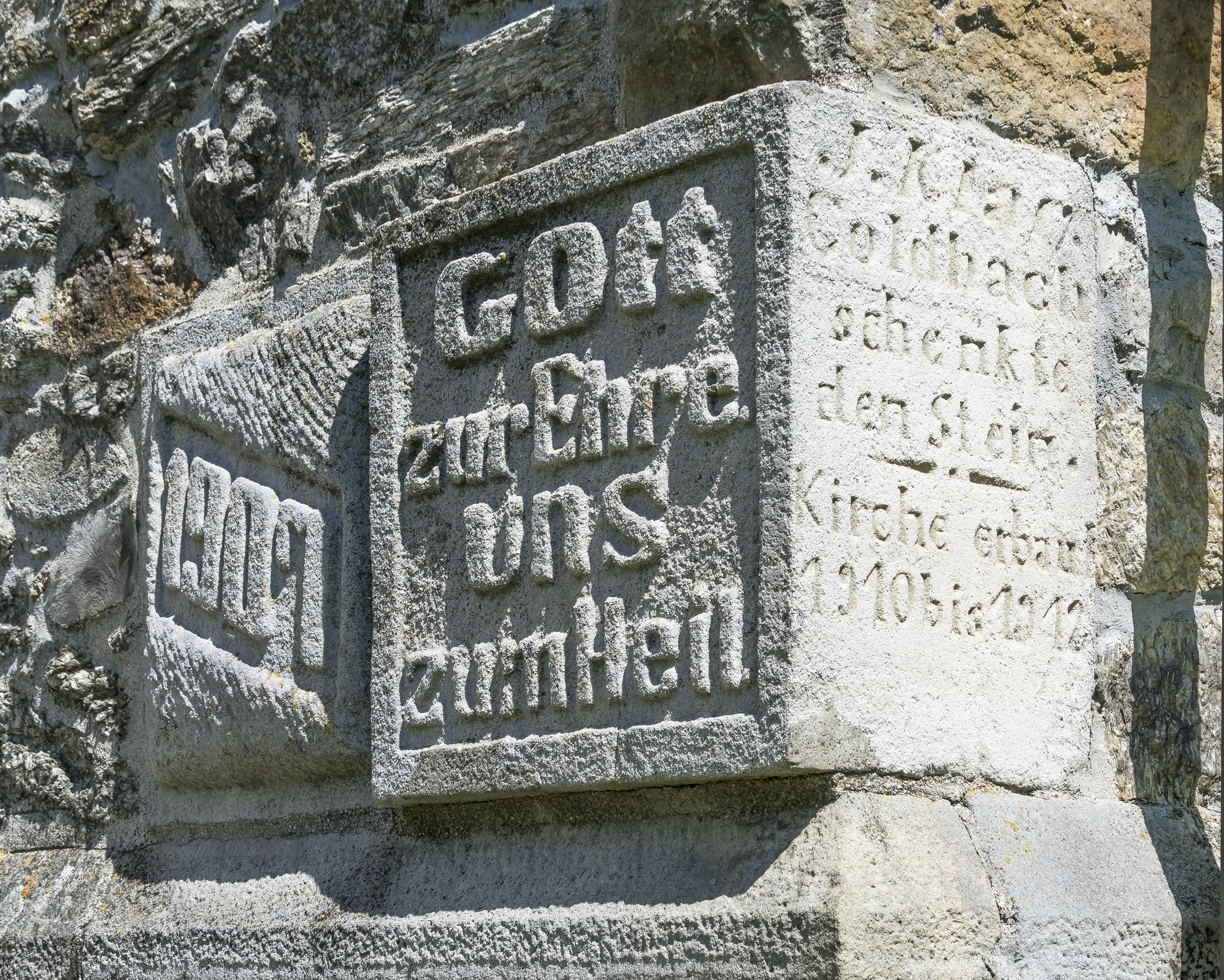 Saint Anthony of Padua church in Lasówka Ta fotografia przedstawia zabytek wpisany do rejestru zabytków pod numerem ID 768116